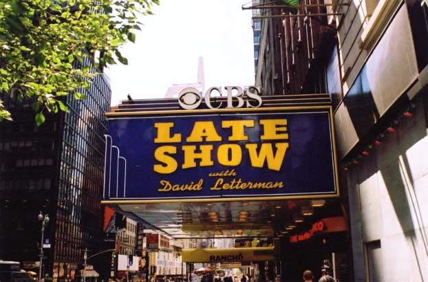 The Late Show